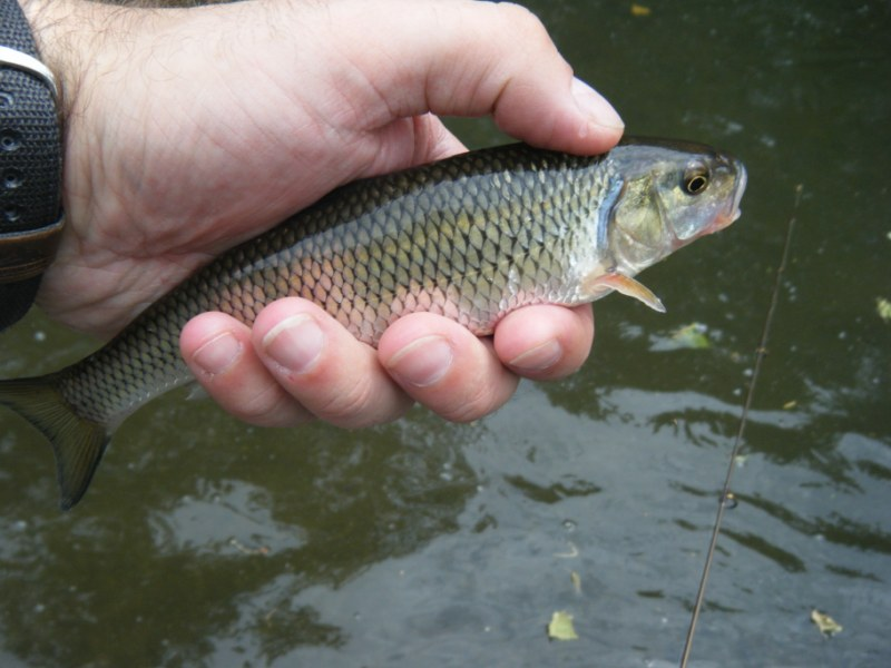 Fallfish (Semotilus corporalis) caught on ultralight spinning tackle, Central Pennyslvania